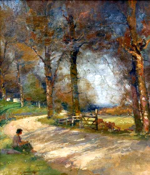 Craigdarroch Looking Down Glencairn